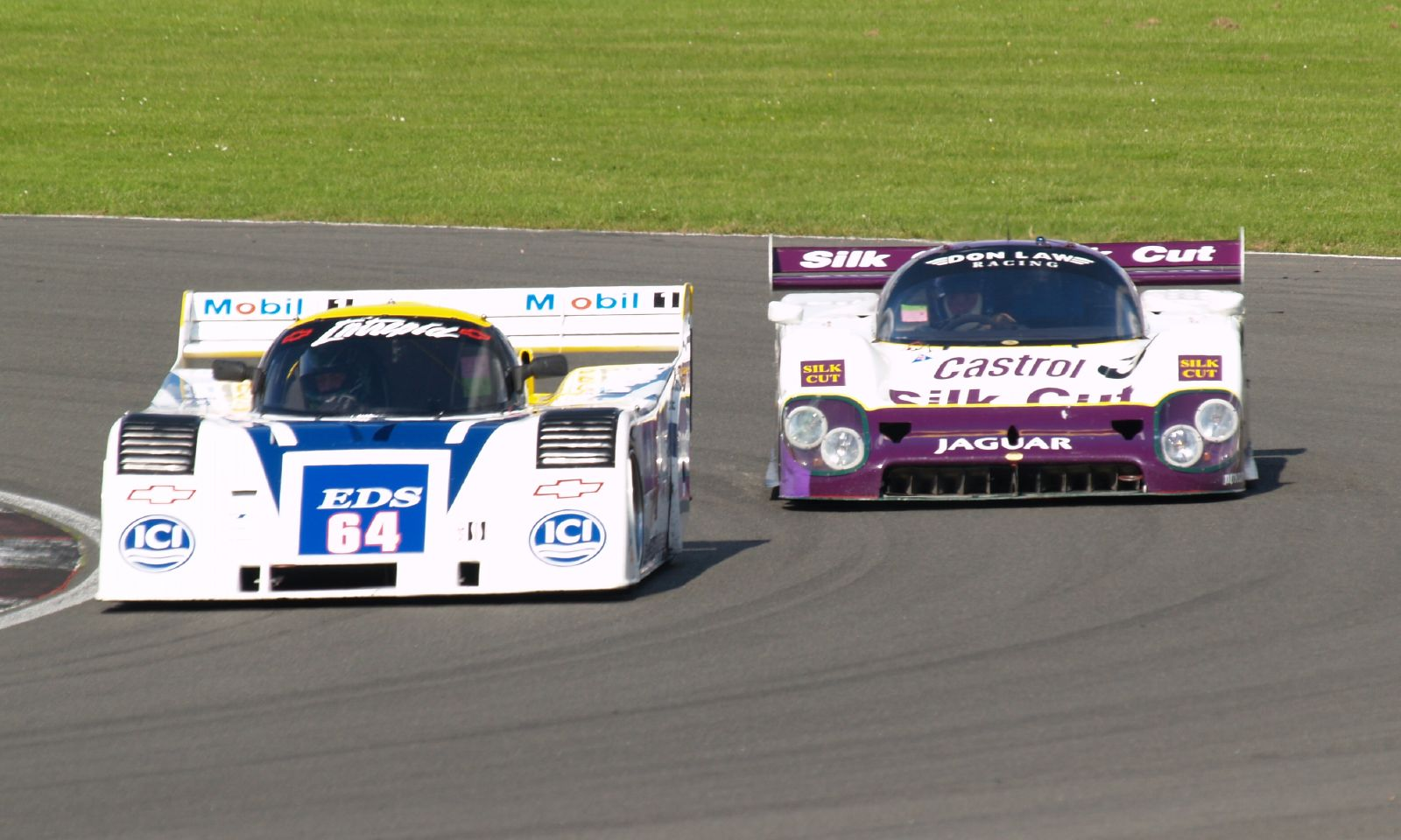 An Intrepid RM-1 Chevrolet and Jaguar XJR-12 at the Silverstone Classic